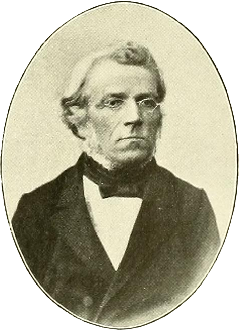 Portrait of the botanist Philipp Wilhelm Wirtgen